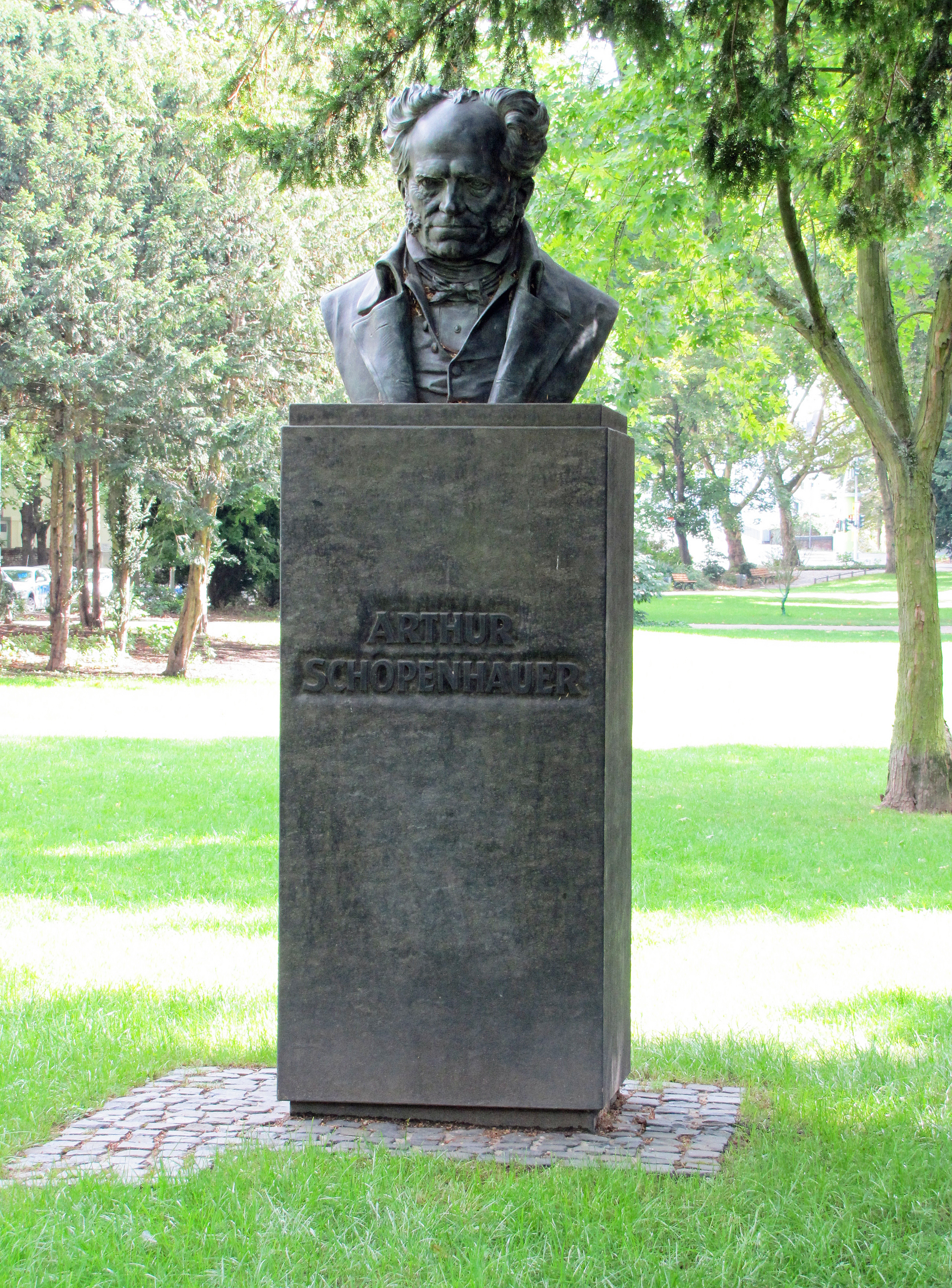 Arthur Schopenhauer monument at "Obermainanlage" in Frankfurt am Main, Germany.